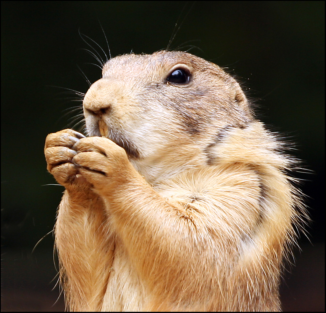 can almost hear him saying "mwuh ha ha ha...." thanks for your comments everyone - this reached #42 on Explore!!